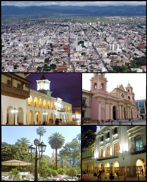 Image montage of Salta City, Argentina.